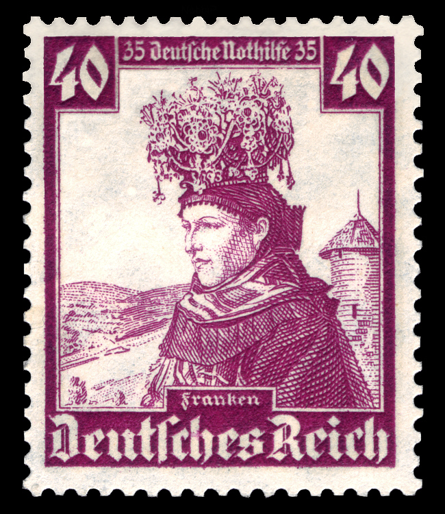 stamp series Winterhilfswerk with additional social fee Ausgabepreis: 40+35 Pfennig First Day of Issue / Erstausgabetag: 4. Oktober 1935 Michel-Katalog-Nr: 597 (Deutsches Reich)